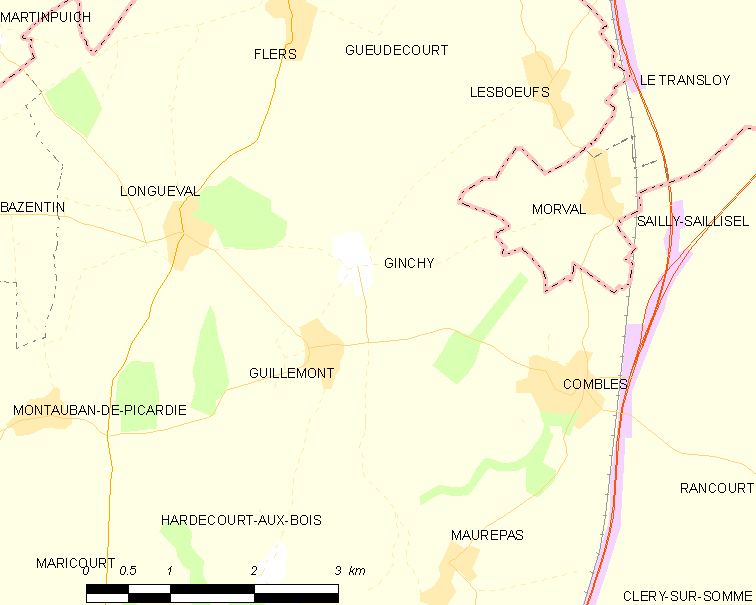 Map of French municipality Ginchy